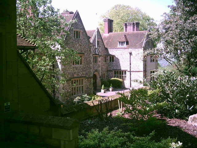 Flint House, Goring-on-Thames, Oxfordshire. Designed by by Ernest Newton for F.N. Garrard. Now a national police rehabilitation centre.